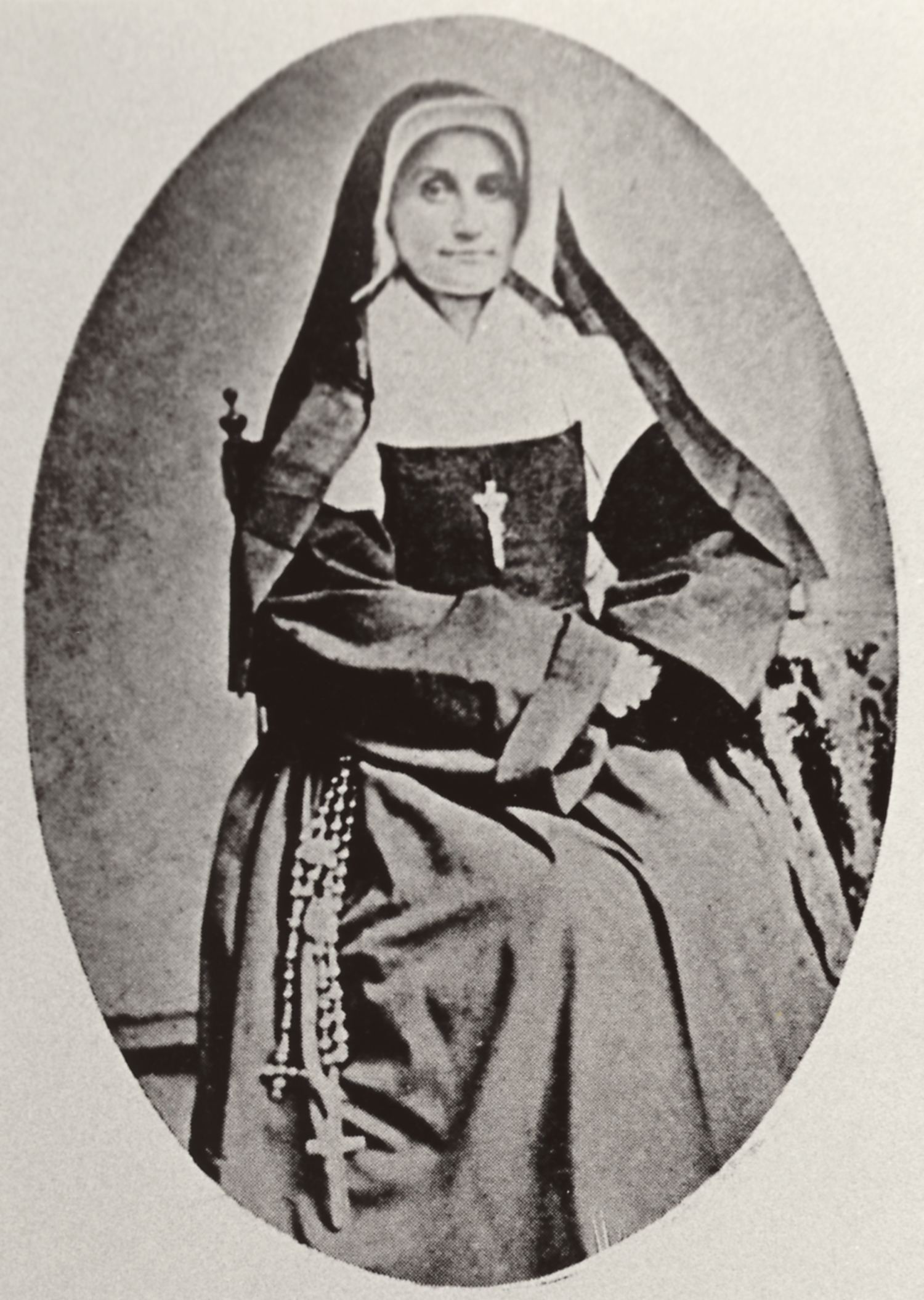 Mother Mary Cecilia Bailley (1815-1898) was superior general of the Sisters of Providence of Saint Mary-of-the-Woods, Indiana, from Mother Theodore Guerin's death in 1856 until 1868.